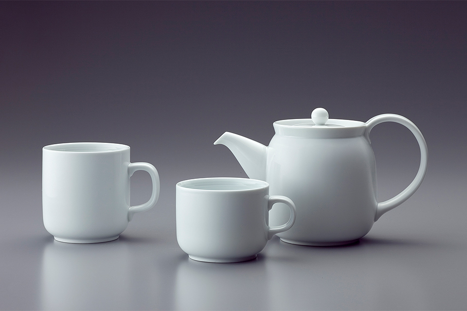 MUJI Japanese Tableware / Tea Set, Mug (2004), Masahiro Mori (ceramic designer) designed